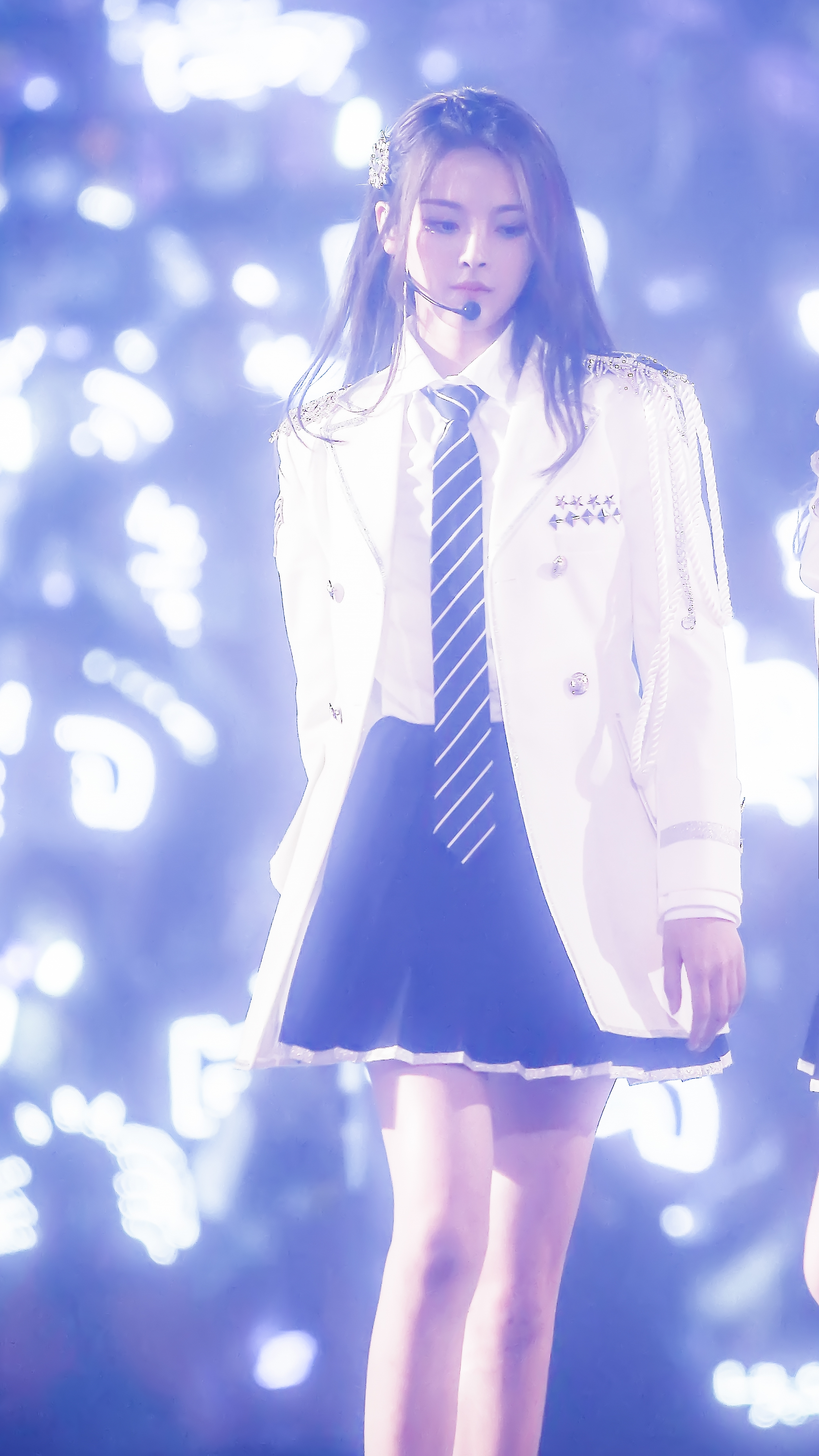 Yang Chaoyue at the "2019 Rocket Girls 101 Flight Concert LIGHT · Beijing", Beijing Cadillac Arena, February 23, 2019.